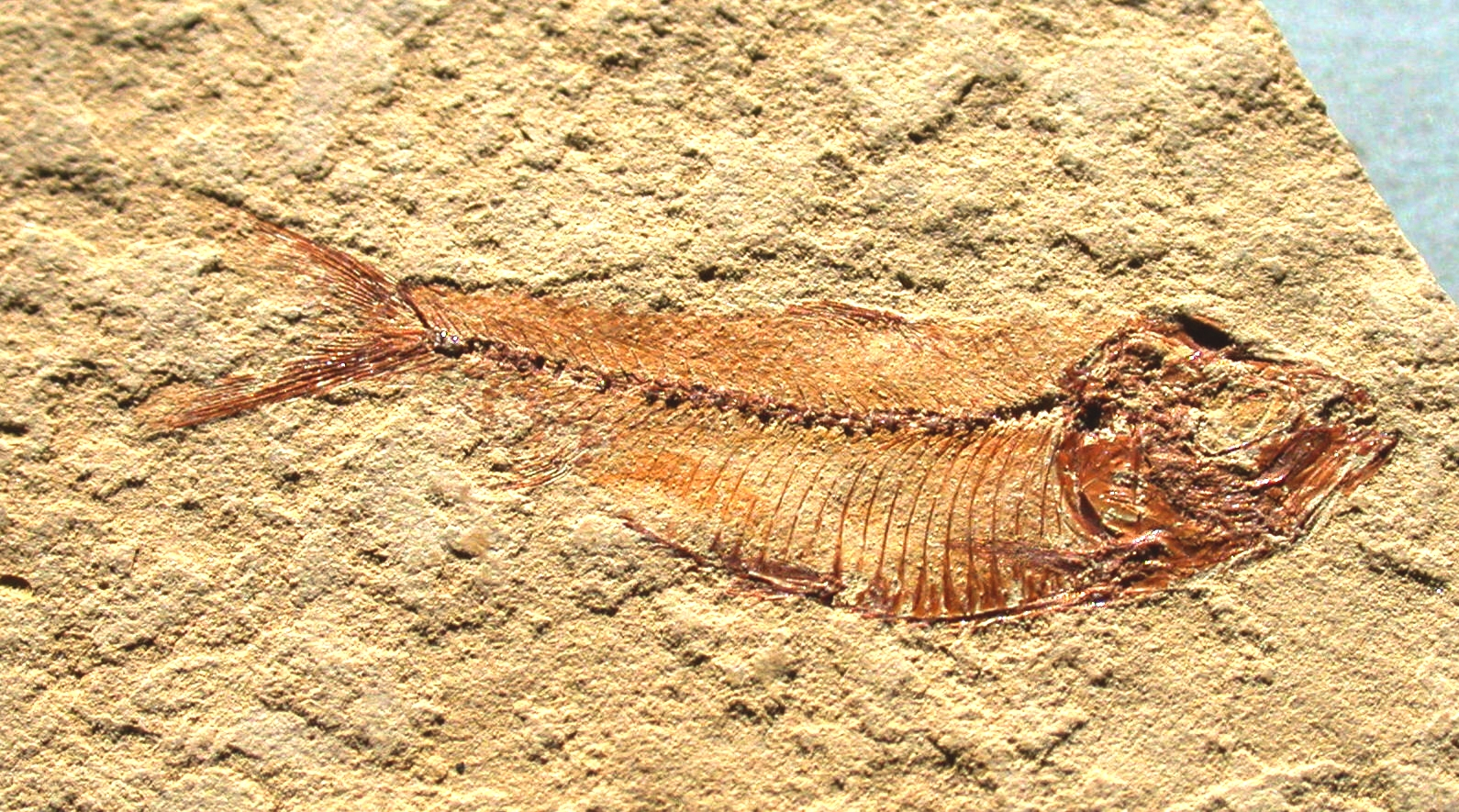 Knightia alta, an eocene fossil fish of the herring family (Clupeidae). ca. 56 Ma. Colorado USA.33 mm long.